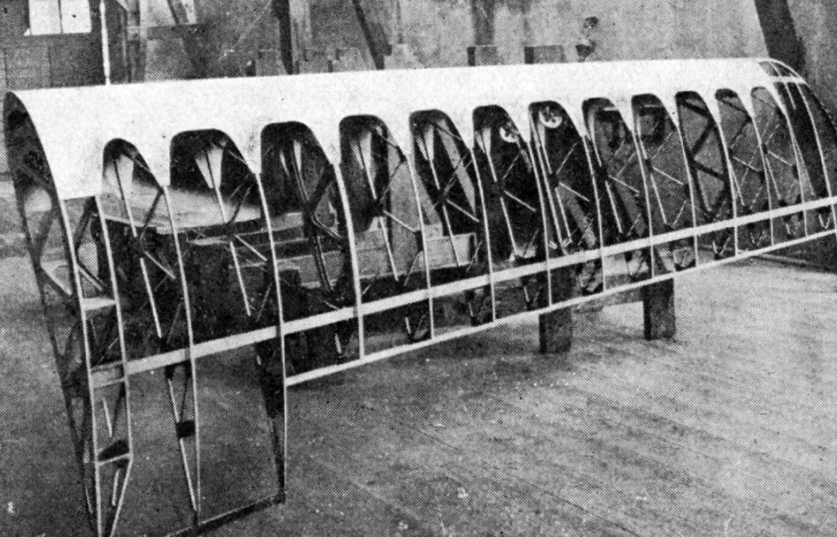 Ikarus L-1 photo from L'Aéronautique August,1929